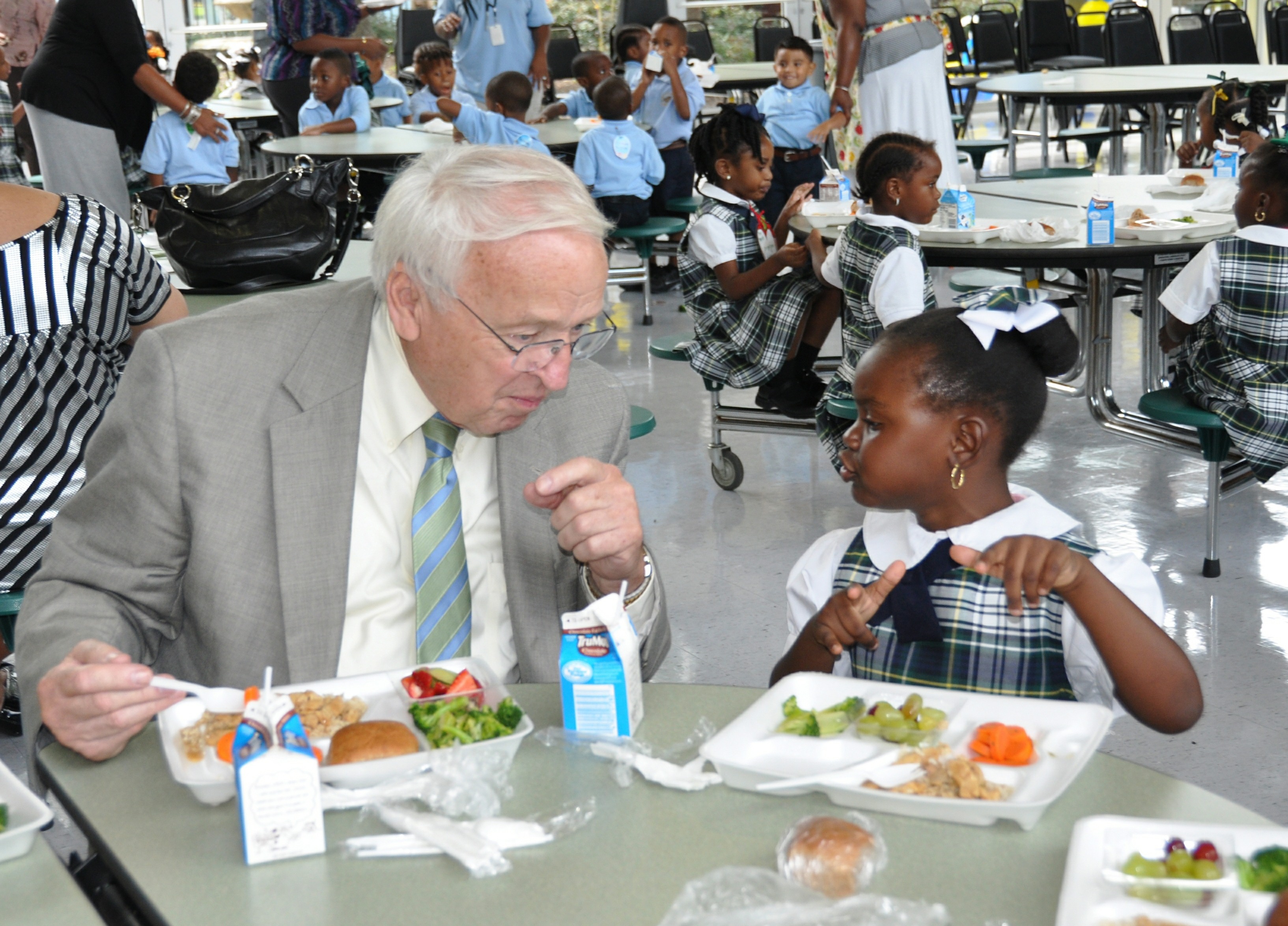 Agriculture Under Secretary for Food, Nutrition, and Consumer Services Kevin Concannon shares a healthy lunch with a kindergarten student at Mahalia Jackson Elementary School in New Orleans, LA., on Aug. 21, 2012. Students can expect healthier and more nutritious food in school due to the passage of the Healthy, Hunger Free Kids Act. This Act enables the U.S. Department of Agriculture’s (USDA) Food Nutrition Service (FNS) to nationally advance major improvements by transforming school food and promoting better nutrition and reducing obesity. USDA photo by Terri Romine-Ortega.